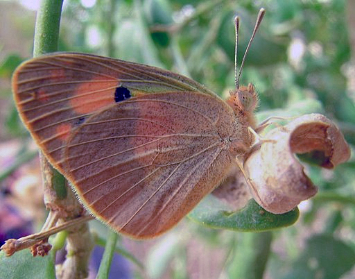 my own work